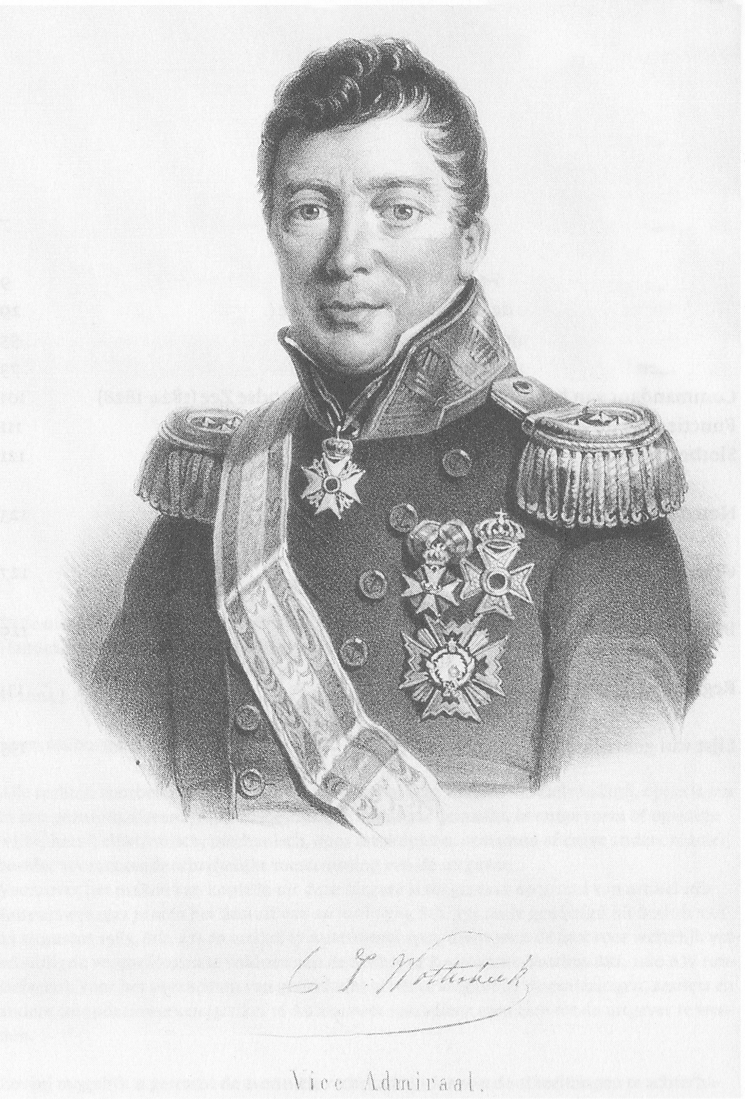 Lithograph of Constantijn Johan Wolterbeek (1766-1845), a Dutch vice-admiral in the navy.